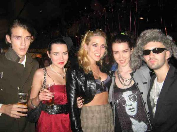 22706 Pacific Coast Hwy Malibu, CA 90265. This photo was made with a selftimer and is released under a Creative Commons Attribution/Share-Alike